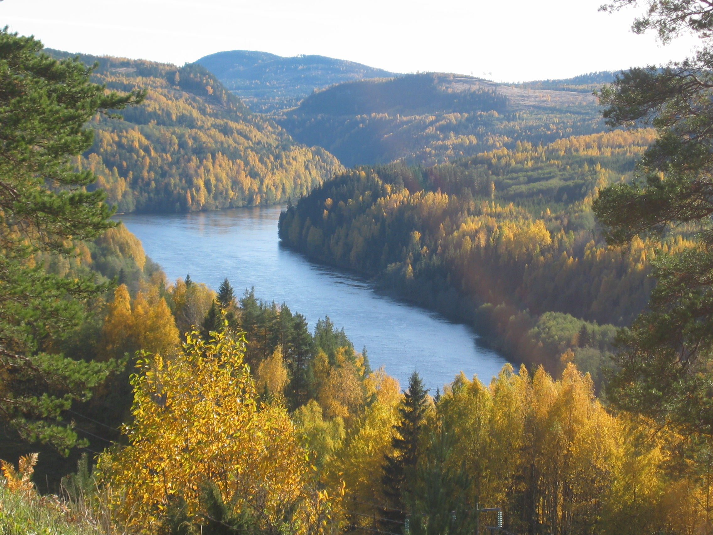 Indalsälven at Utsikten, Sillre.